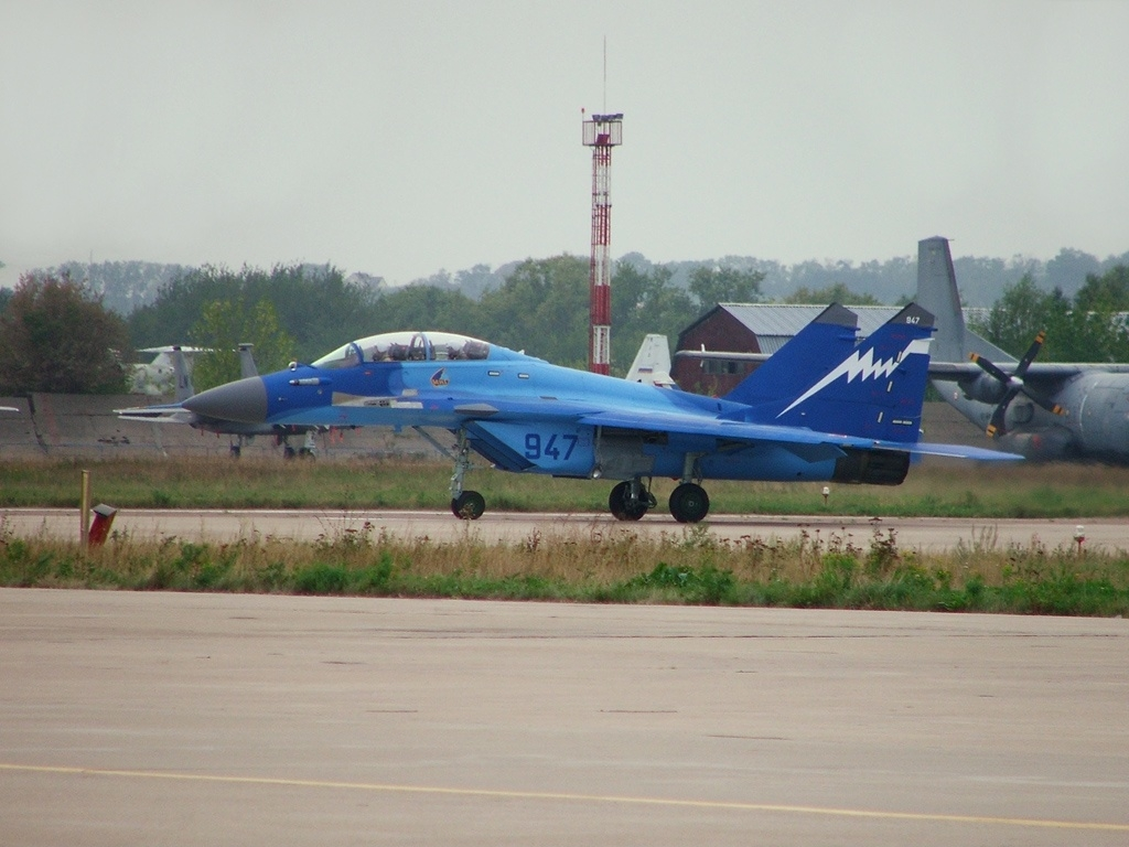 MiG-29KUB (9-47) carrier-based operational trainer at MAKS-2007 airshow